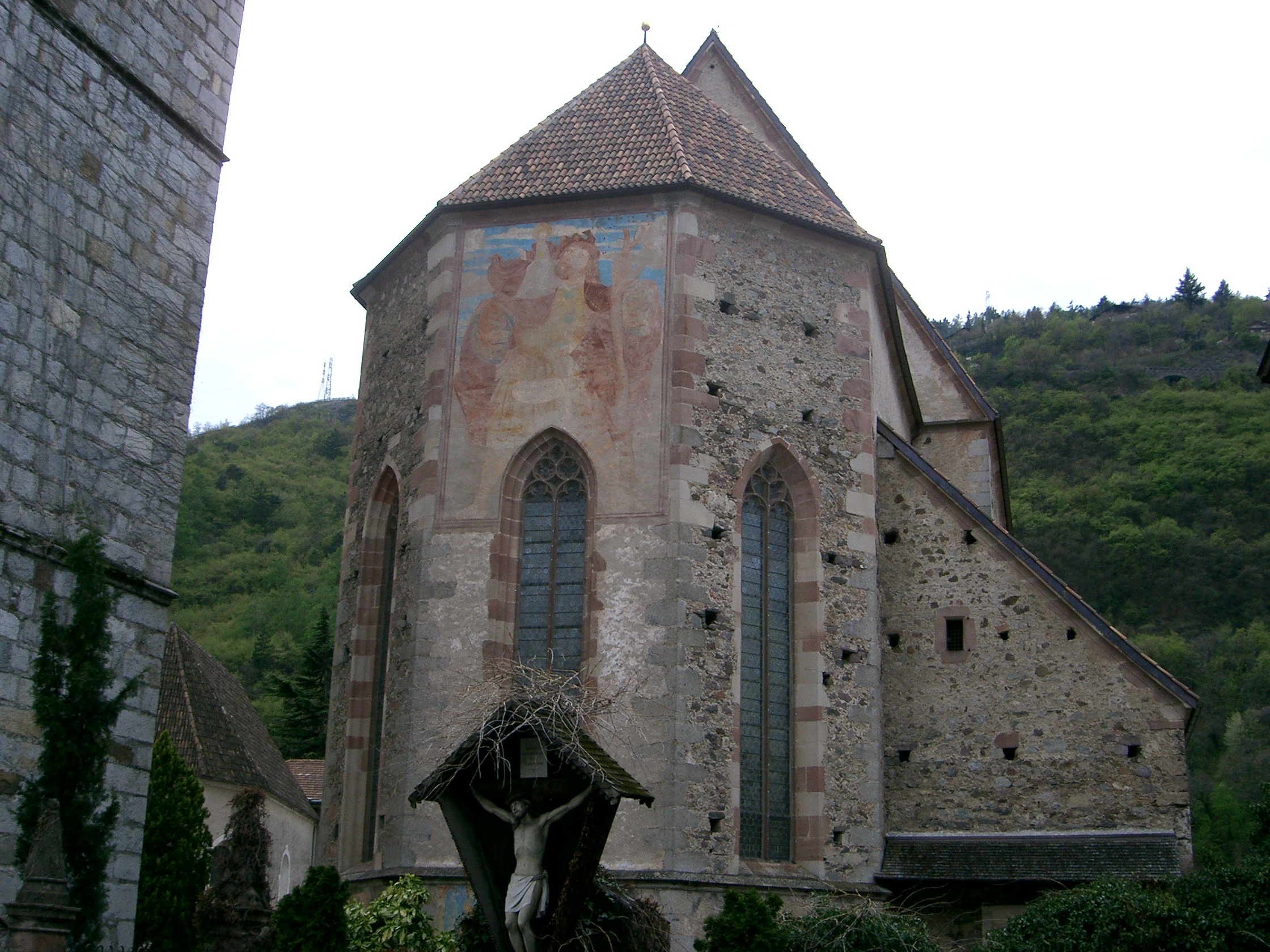 Niederlana, Italy. Parish church.